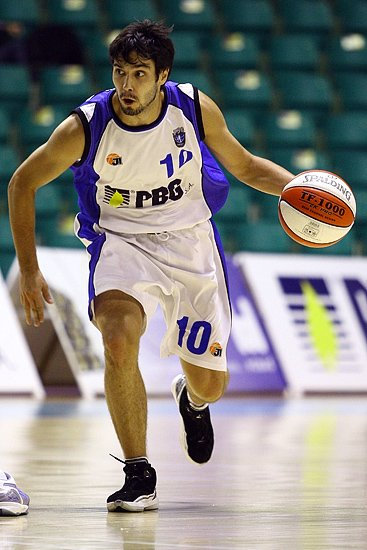 serbian basketball player Uros Duvnjak